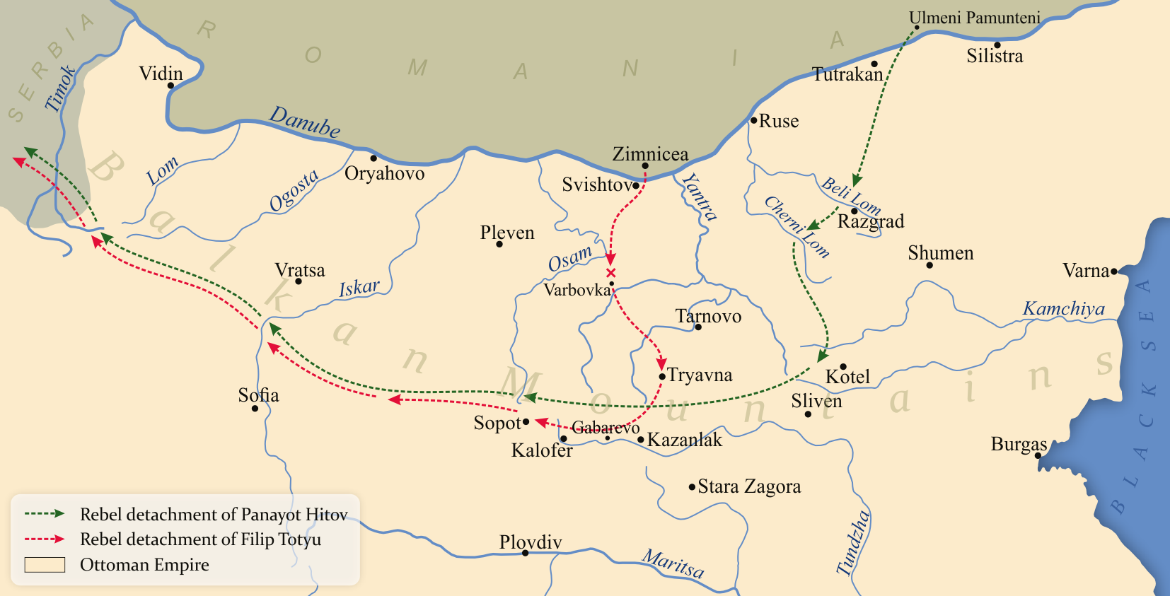 Actions of the rebel detachments of Panayot Hitov and Filip Totyu in 1867. Основана на карта "Националнореволюционно движение (1862-1875)" в "Атлас по история на България за средните училища", издателство "Картография", София, 1990 г.